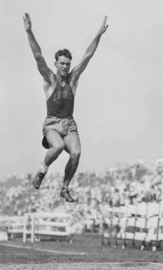 1936 Press Photo Roland Romero wins hop step and jump at final Olympic tryouts